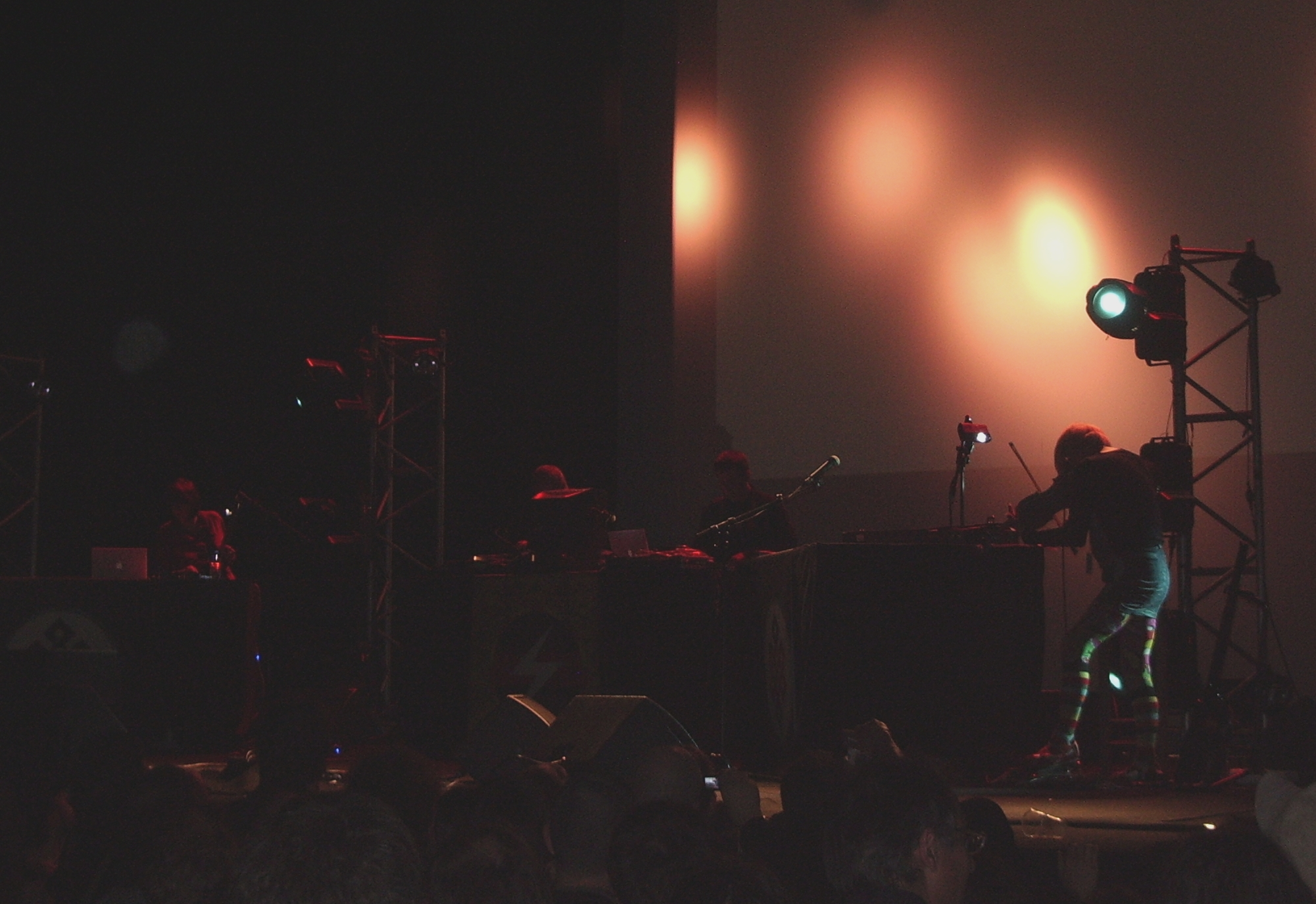 Throbbing Gristle live